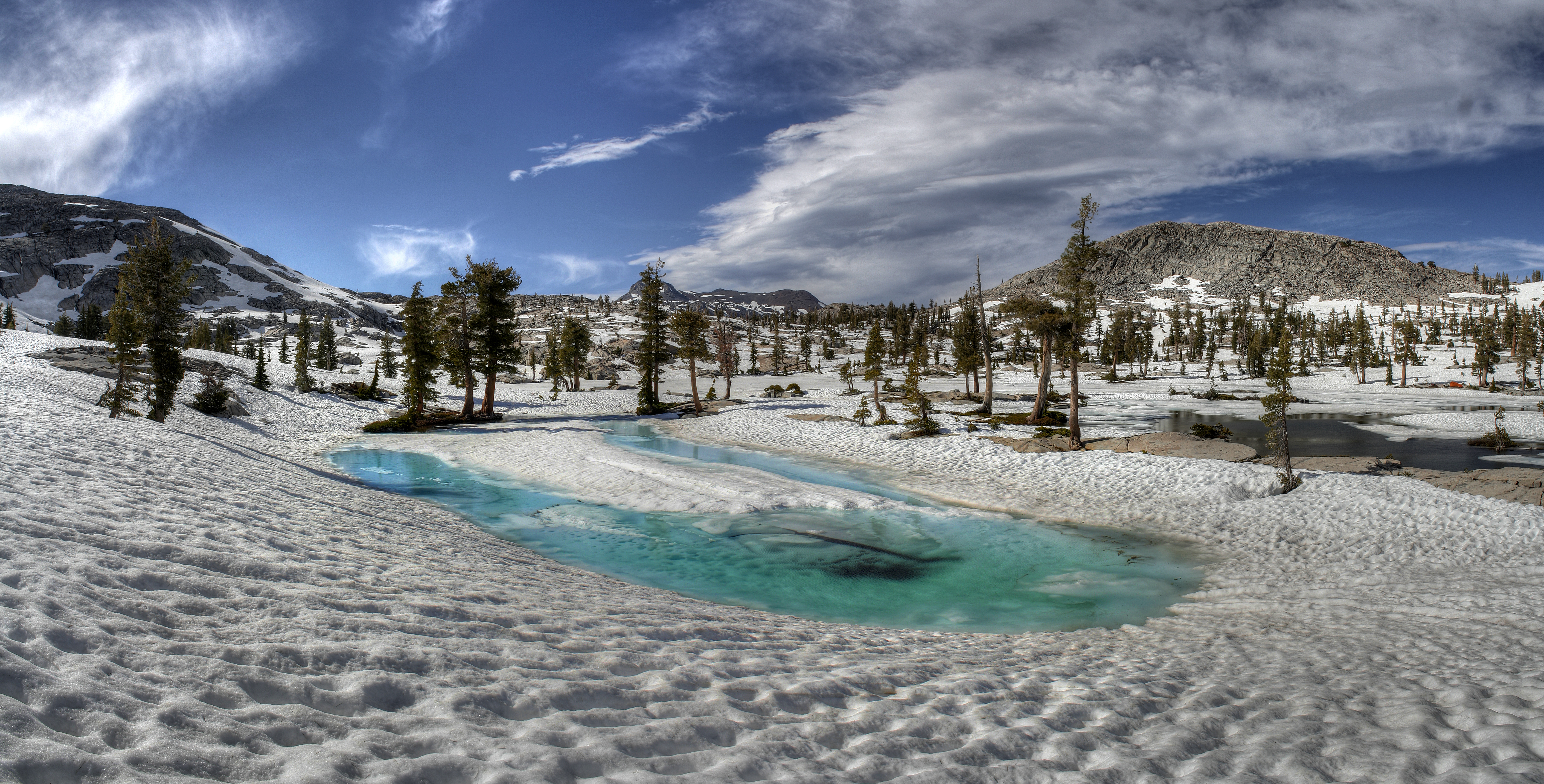 Pyramid Lake Snow Melt. June 18, 2010, 7850ft